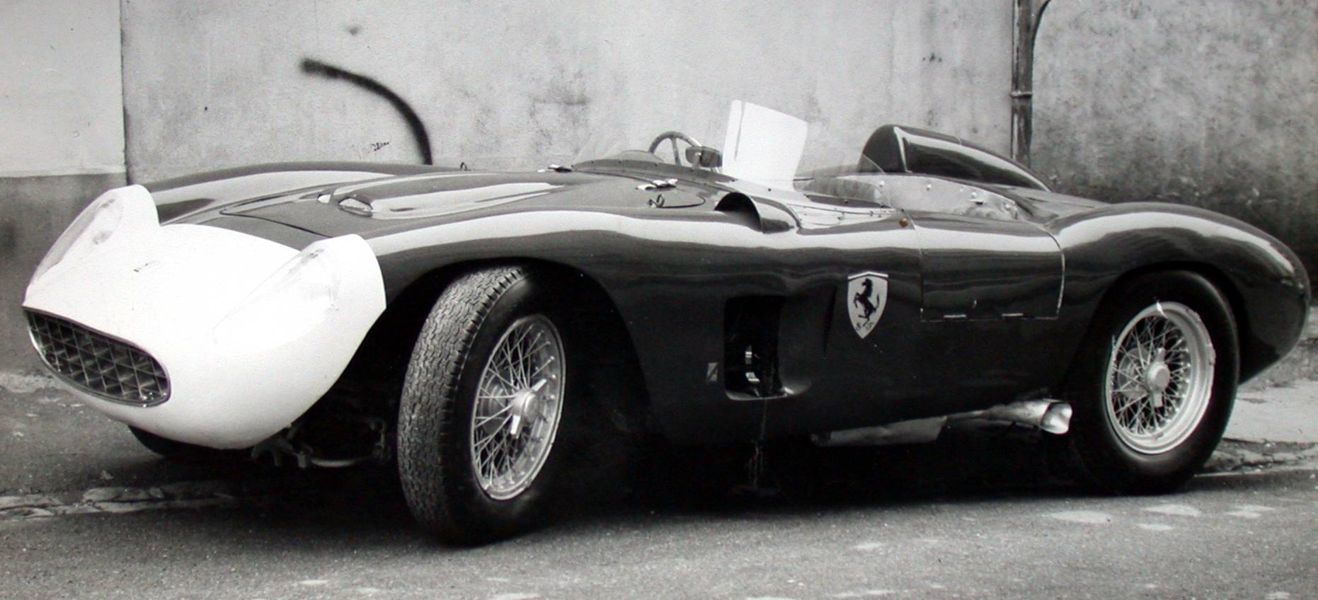 Replica of a Ferrari 500 TR 2 liter 4 cylinder.